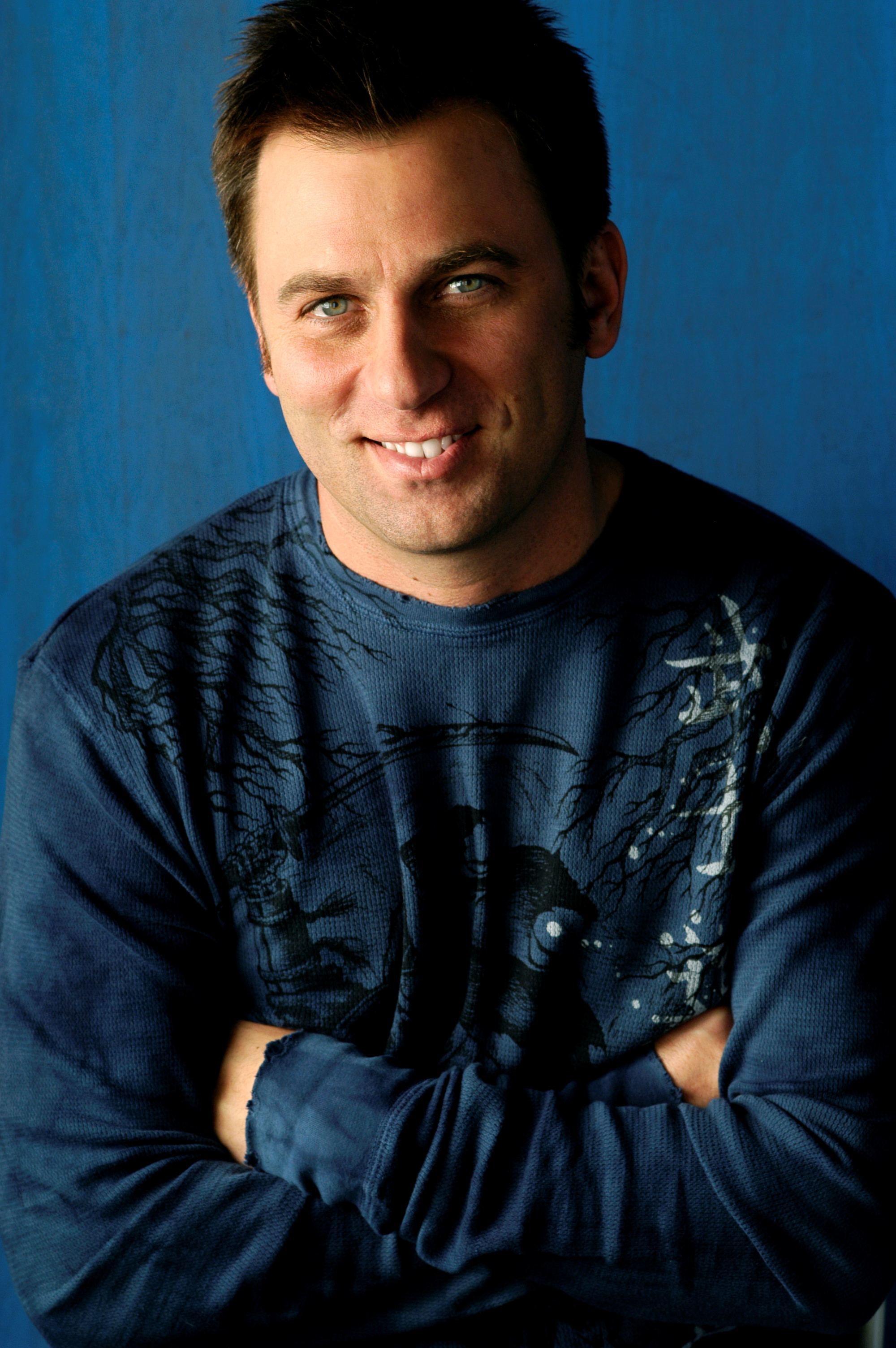 John Heffron, American comedian